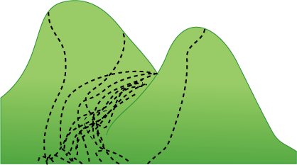 Cartoon mountain pass symbolizing path of least resistance. Created in Adobe Illustrator by Jeremy Kemp.